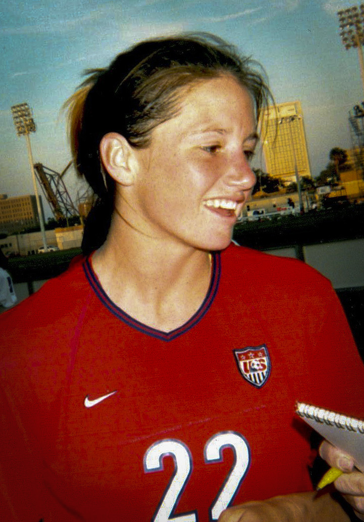 danielle fotopoulos american footballer